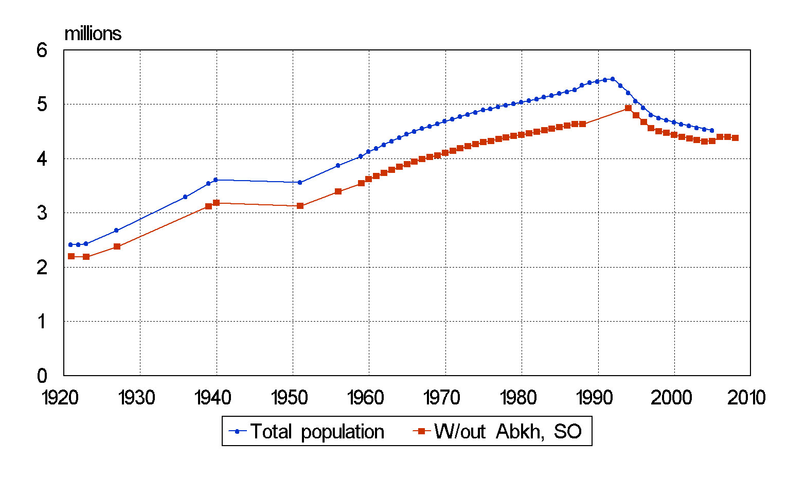 Georgia's population with and without Abkhazia and South Osetia, (1921-2008). Sources of data: statistical yearbooks of Georgian SSR and Republic of Georgia (various years)